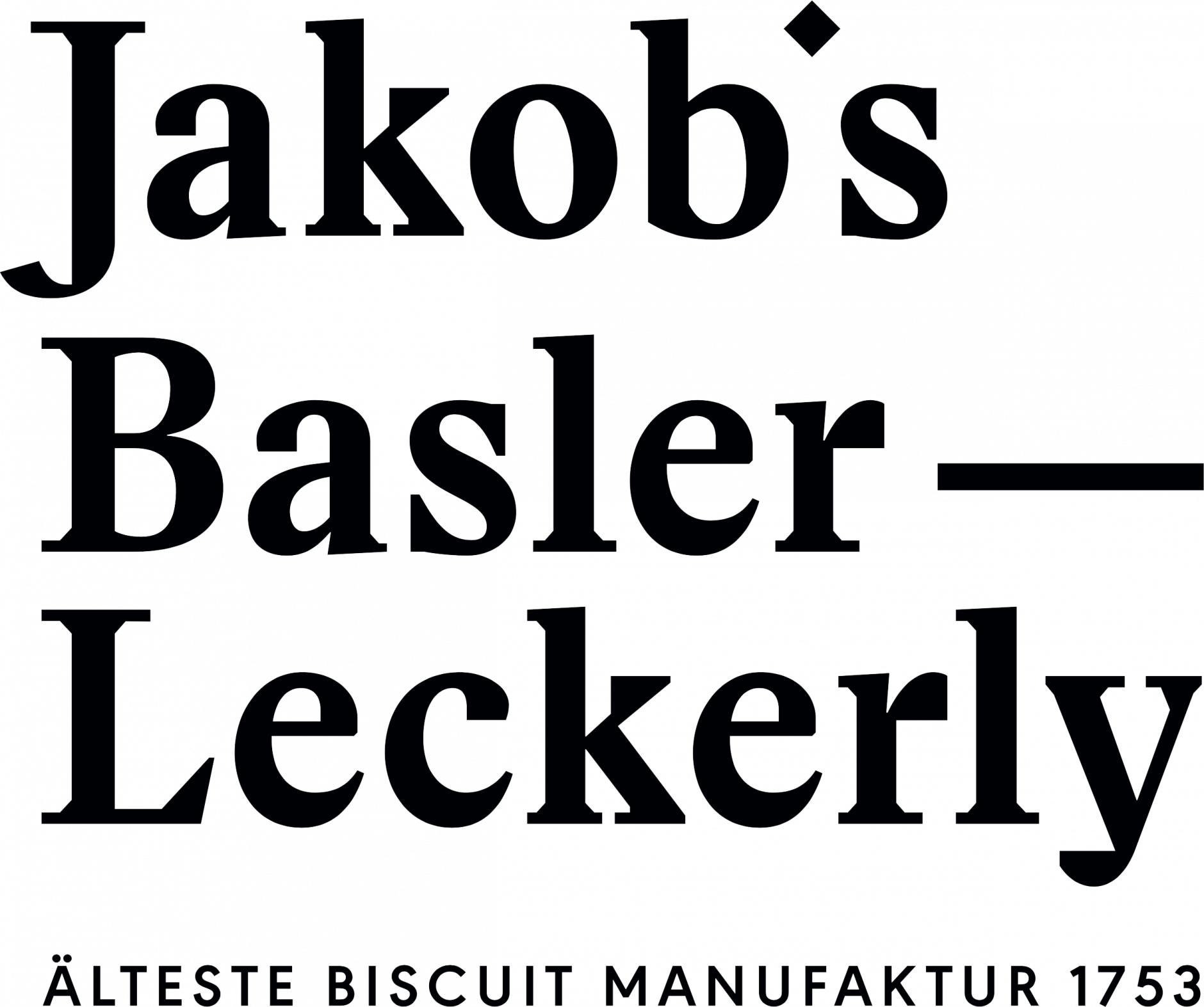 Jakob's Basler Lecklerly logo